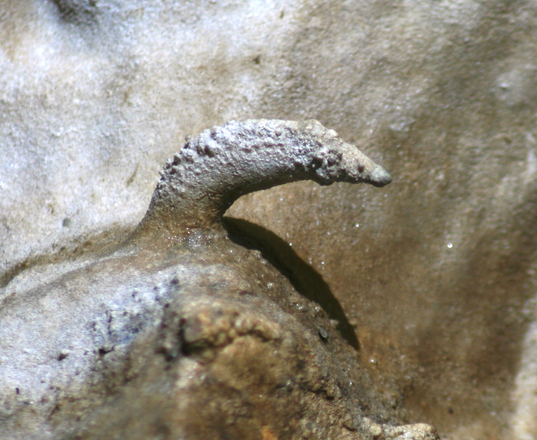 Helictites are Soda Straw stalactites whose straw got plugged, but the water found an avenue out through a weakness in the side. As a result, new formation starts growing out from where the weakness was, creating an uncommon shape.